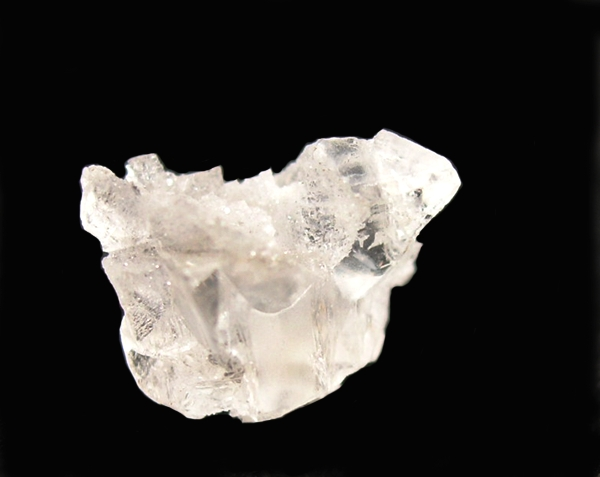 Cahnite Locality: Franklin Mine, Franklin, Franklin Mining District, Sussex County, New Jersey, USA (Locality at ) Size: thumbnail, 1 x 0.8 x 0.5 cm Cahnite twin (found in 1921) This is a Cahnite, an extremely rar mineral even by Franklin standards, found just once in gem crystal quality in a small pocket in 1921 by a collector named Stanton. This one is even more rare, it is complexly twinned. However, the pics are tough and the piece is clear and difficult to shoot - suffice to say its better by far in person. This piece went to Harvard, and then it was exchanged to Dr. Mark Feinglos at some point. It has resided since in his collection for many years. These come to market only in recycled collections of ultimate rarities, and are so few and far between that most of us are lucky to even see one go by. It is pretty small by some standards; but relatively speaking though it is a giant of a piece for what it is. It is of a size that the twinning is readily visible to the eye, in person. Again, trust me, the piece is much better than the photo indicates.